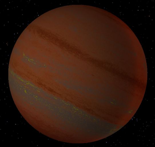 Artistic rendering of BD+20 2457 c